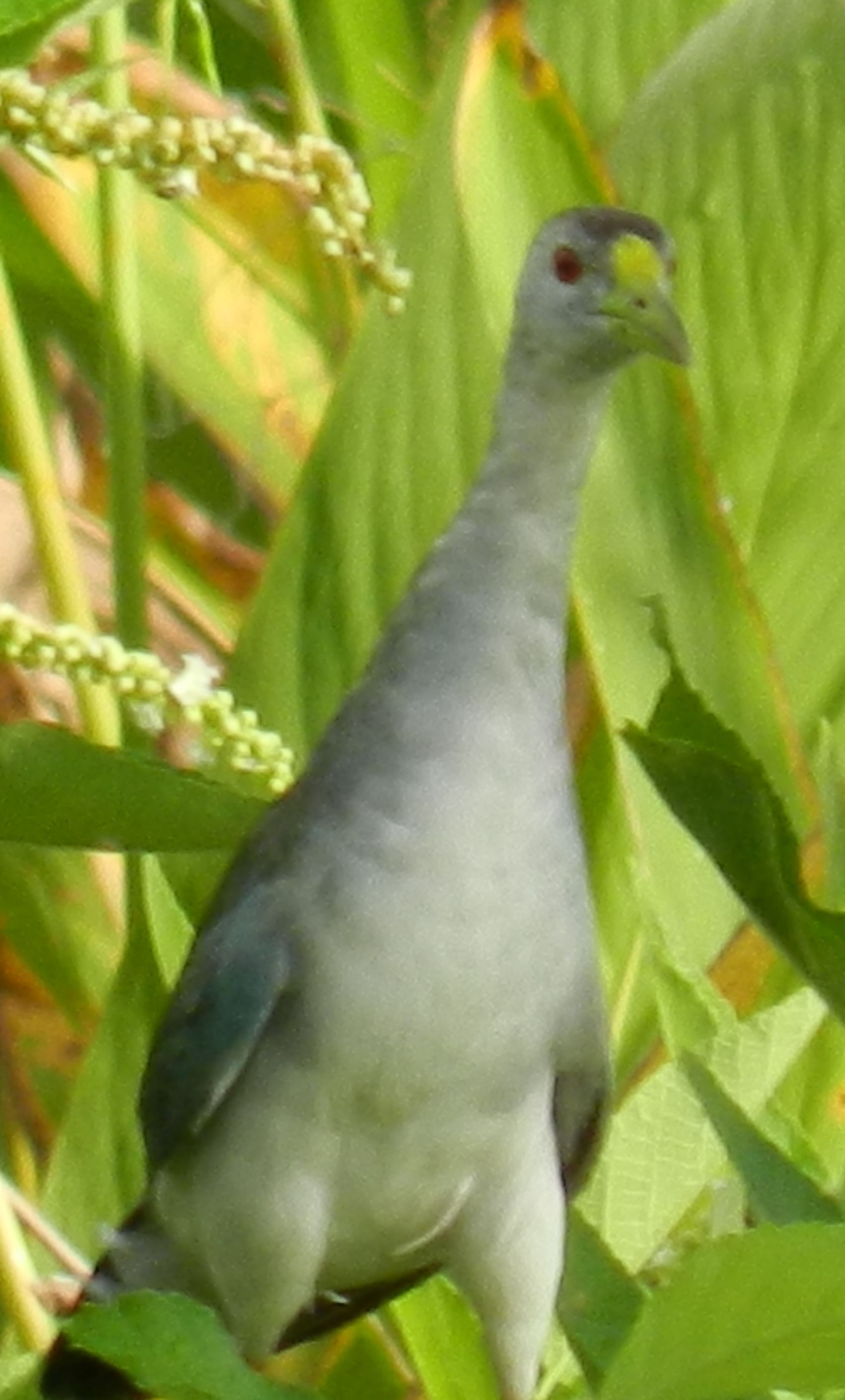 Azure Gallinule Porphyrio flavirostris, Kernahan, Trinidad